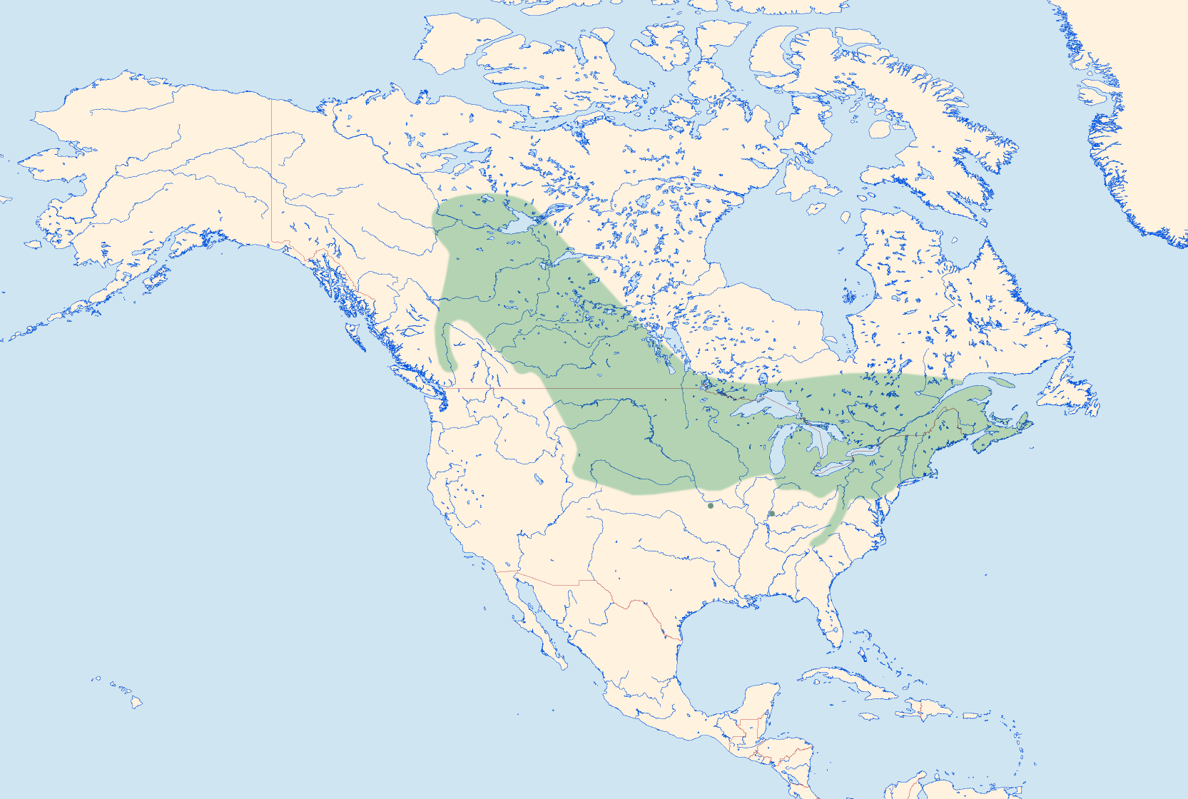 Distribution of Hagen's Bluet (Enallagma hageni). Data Sources (In case of discrepancies in the map source the youngest in each data source was used): Dennis Paulson: Dragonflies and Damselflies of the East, Princeton Field Guides, Princeton University Press, New Jersey 2011, ISBN 978-0-691-12283-0. Dennis Paulson: Dragonflies and Damselflies of the West, Princeton Field Guides, Princeton University Press, New Jersey 2000, ISBN 978-0-691-12281-6.